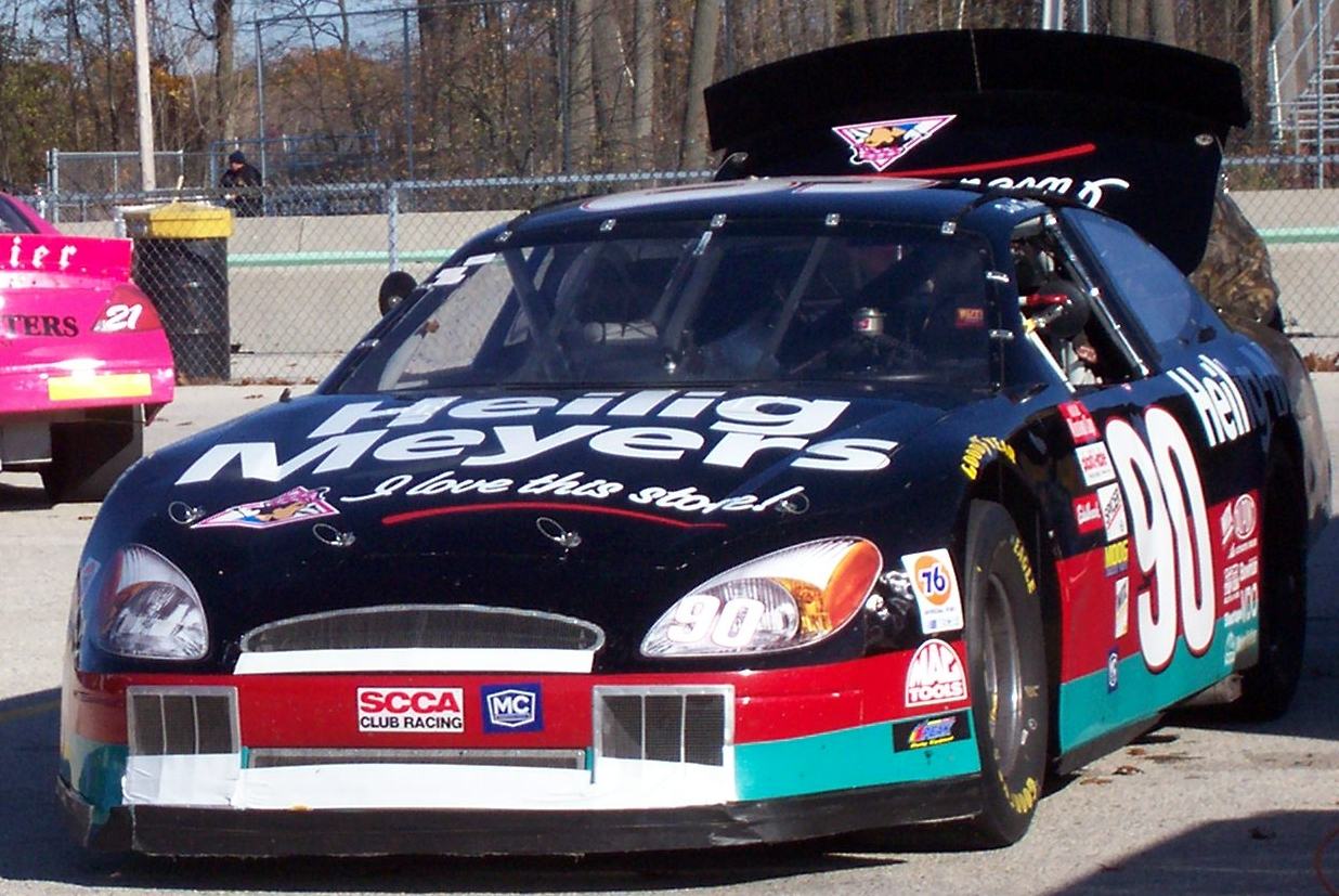 The #90 Heilig Meyers Dick Trickle NASCAR Cup car being worked on in the pits at Road America by driver Dick Karth. The car was being used in a Formula Libre type event featuring Mid American Stock Cars. Trickle raced in this car somewhere between 1996 and 1998.